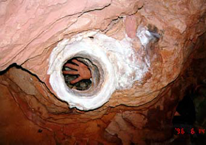 This is a conulite in a false roof. The name of the room in the Wind Cave is Telescope Room because this speleothem.